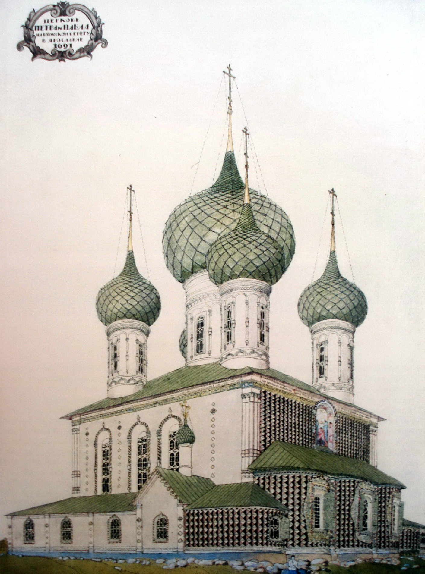 The Church of the St. Peter and Pavl in Yaroslavl. N.N. Malygin. 1920s.